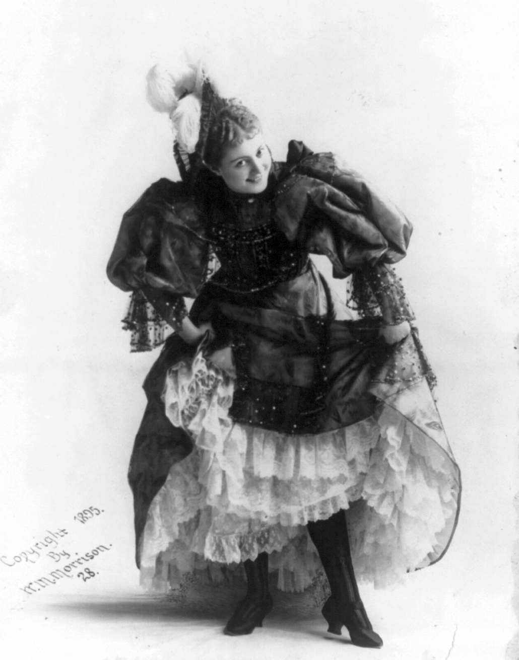 Cissy Fitzgerald, full length, standing, curtseying, facing right; coquettishly holding up skirts to show fancy slips